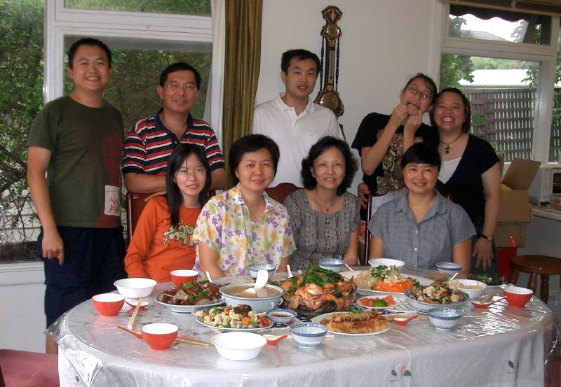 The most important meal during the year.